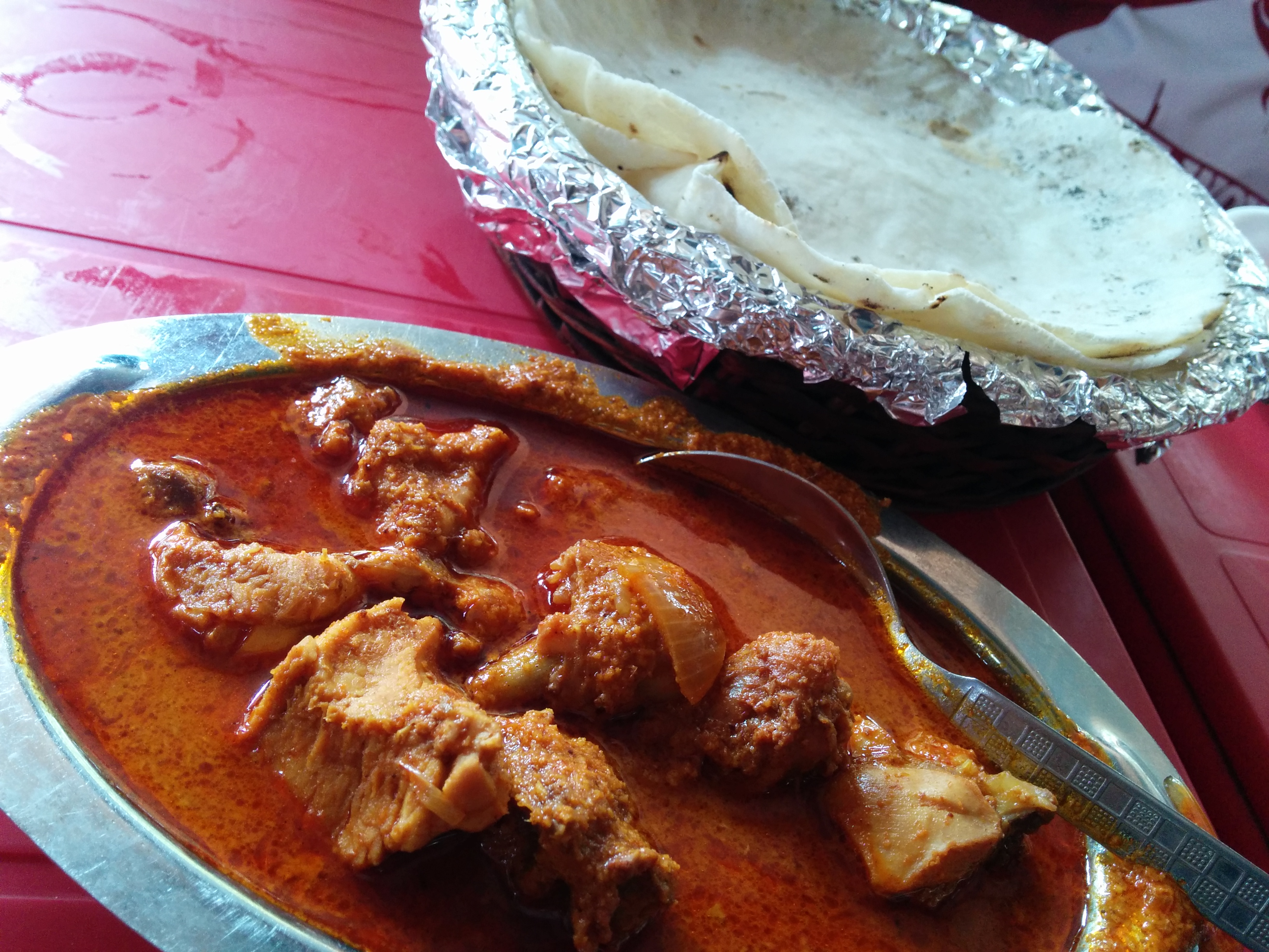 This is a chicken preparation in Malvani style which uses coconut in curry and is a delicacy of Malvan region of Maharashtra. This is served alongside chapatis prepared out of rice flour.